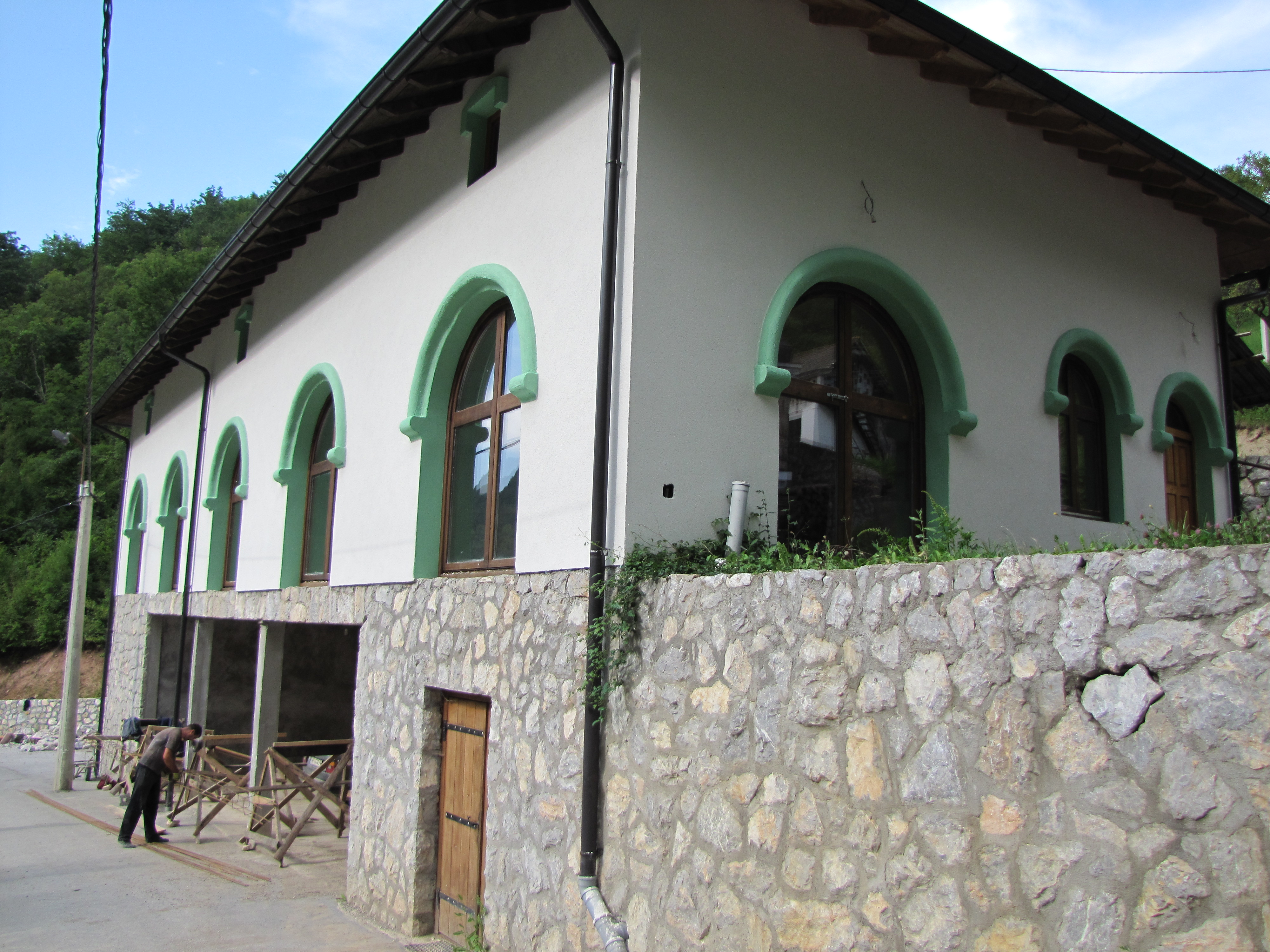 Monastery Crna Reka near Tutin (SW Serbia).